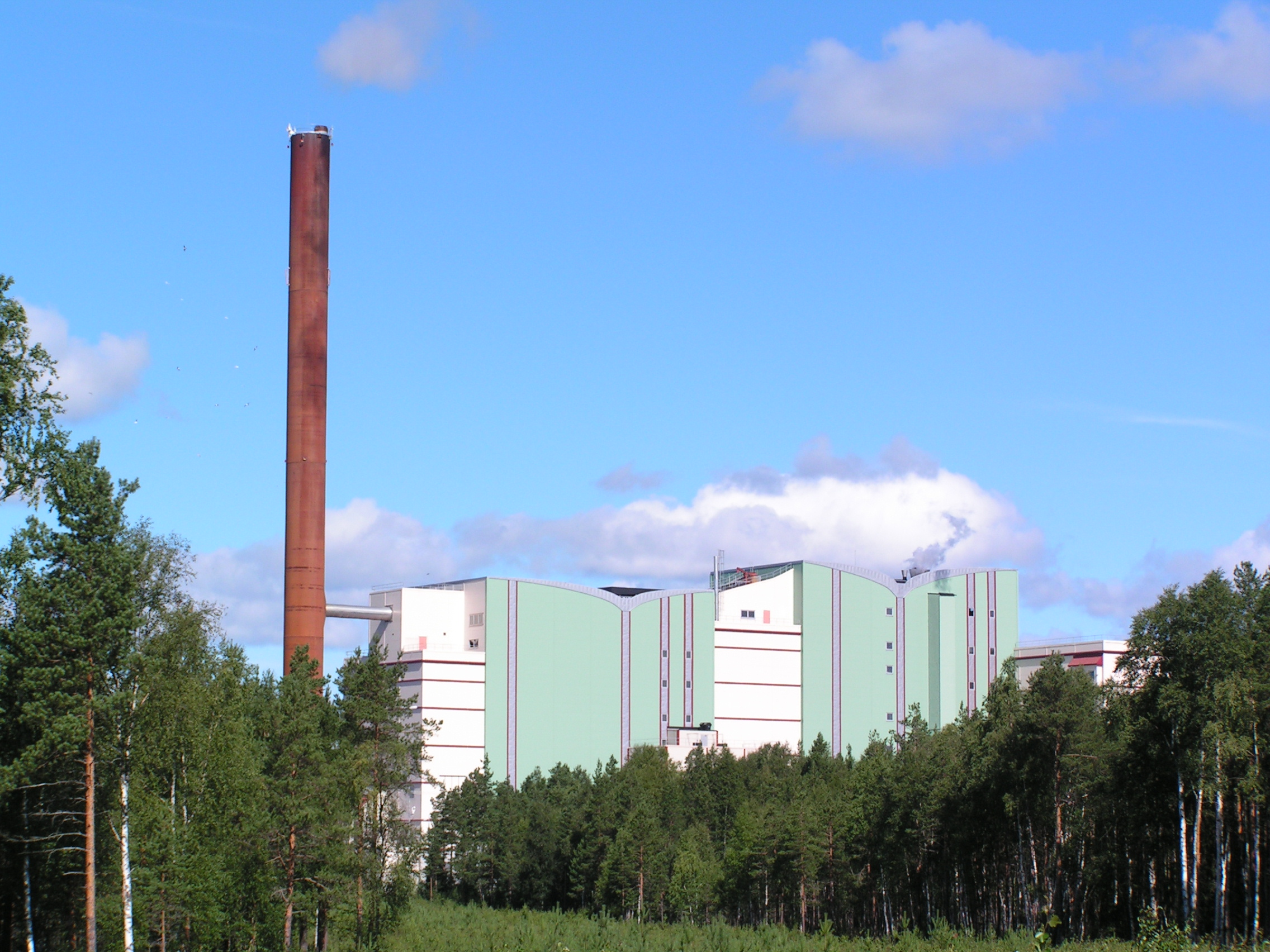 Dåva cogeneration plant (CHP), Umeå, Sweden.